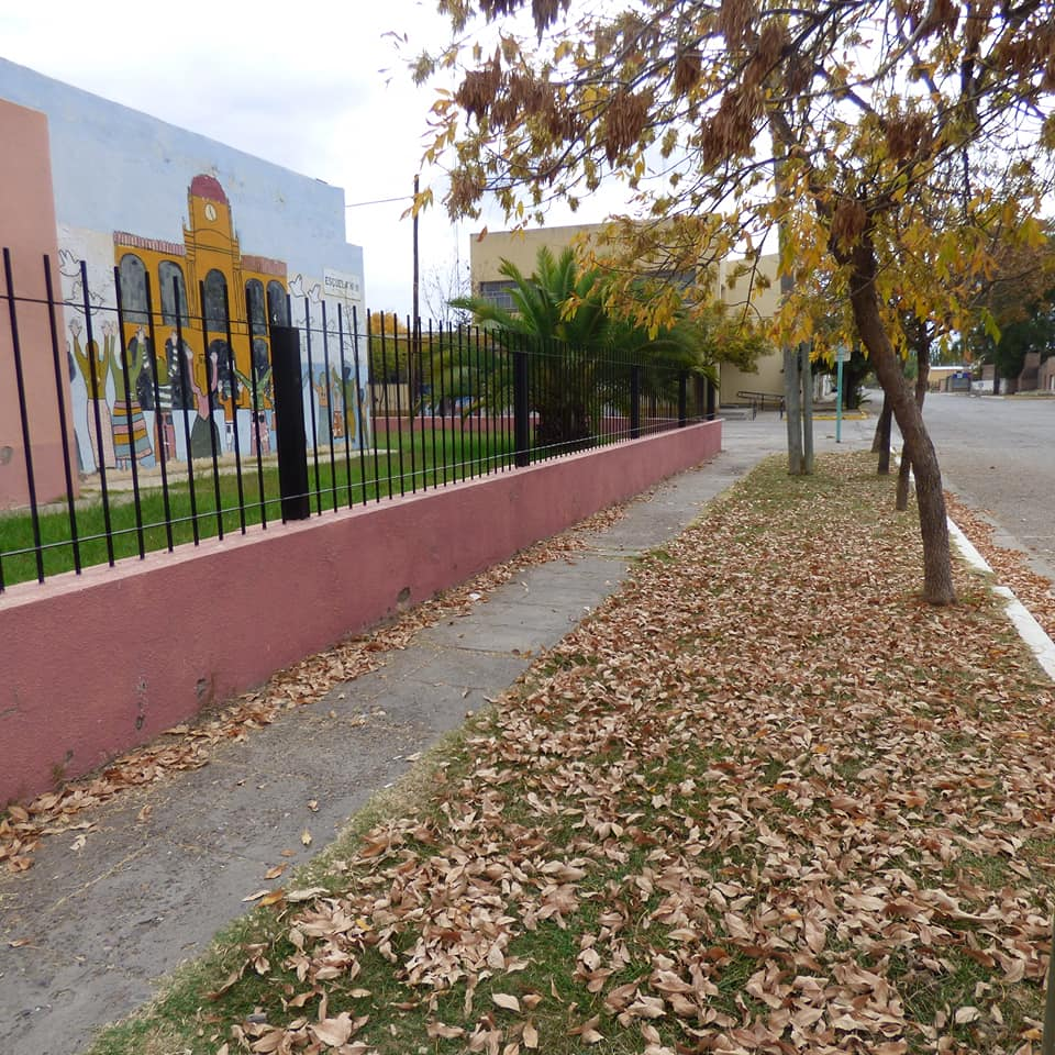 escuela